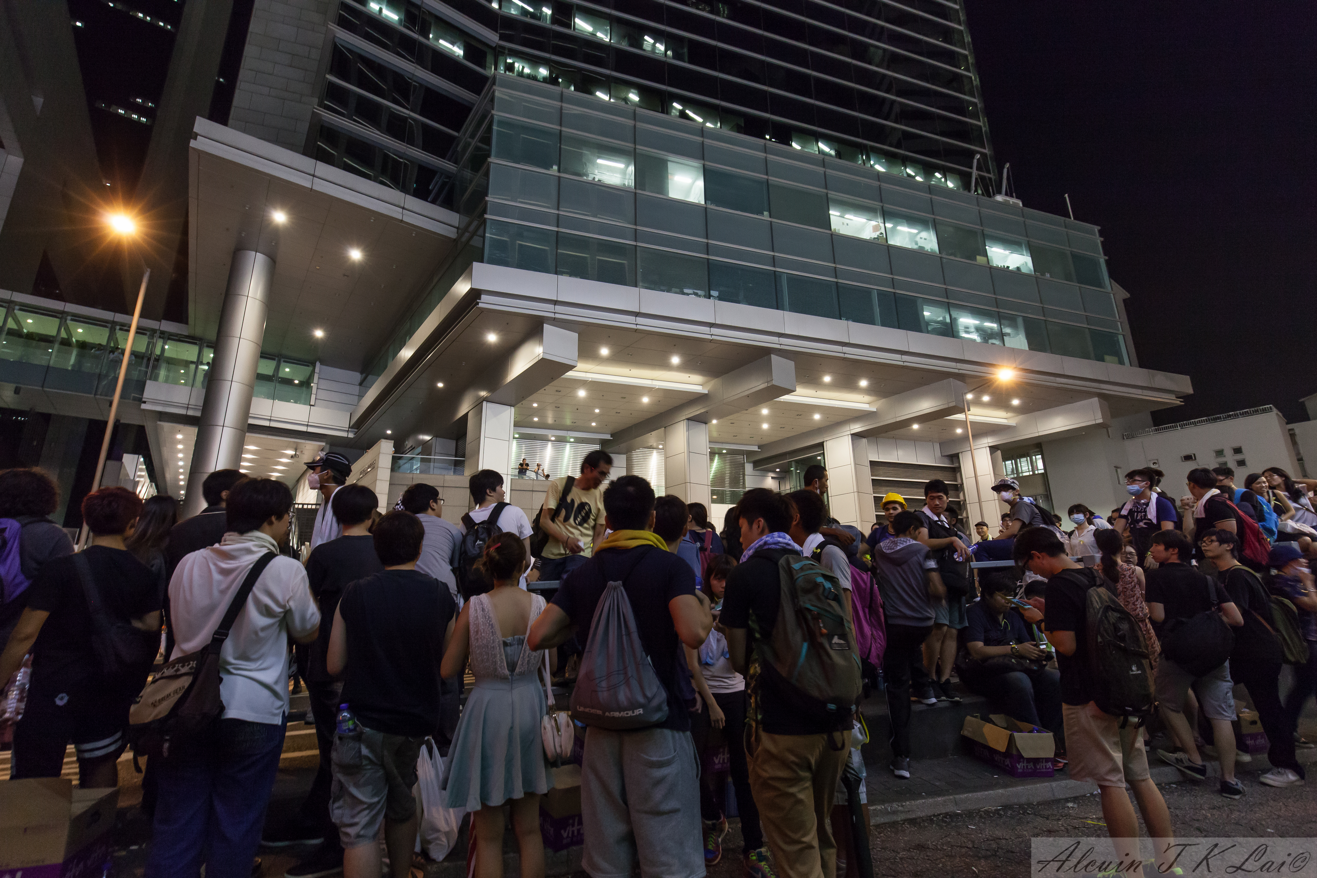 Occupy Central Crowd-outside Wan Chai Police Headquarter